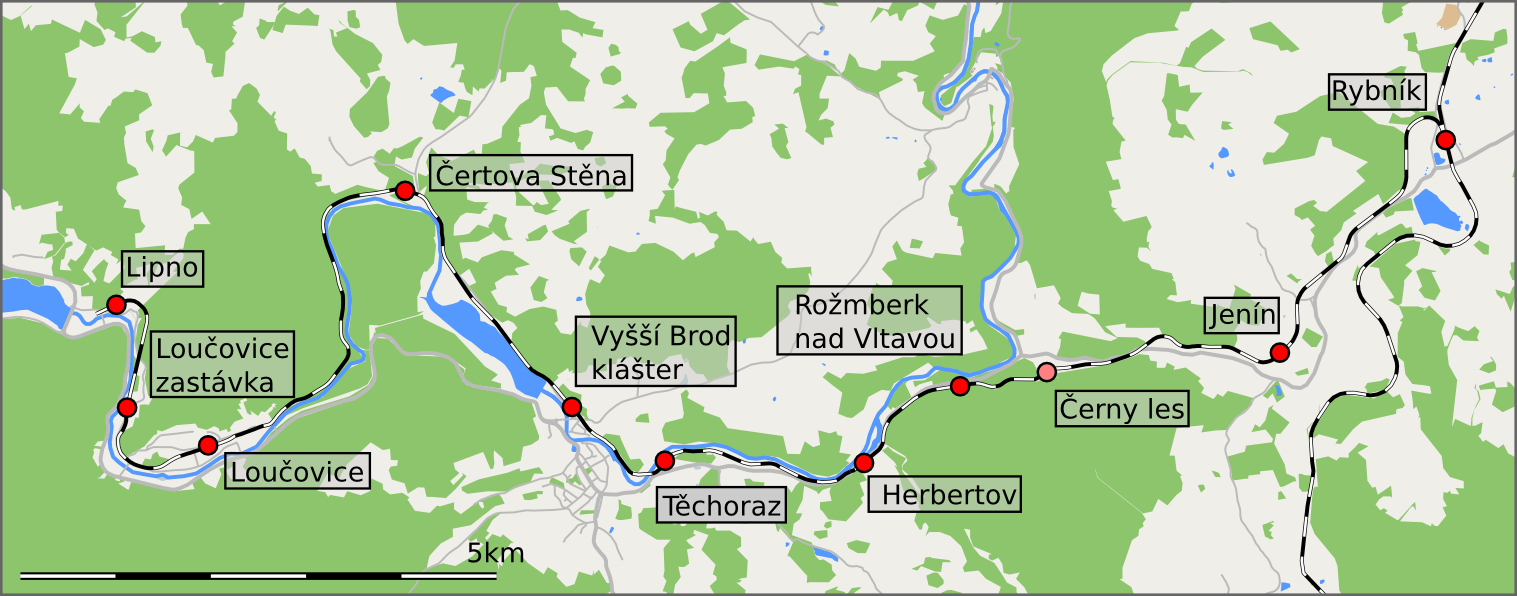 Map of the Rybník – Lipno nad Vltavou railway